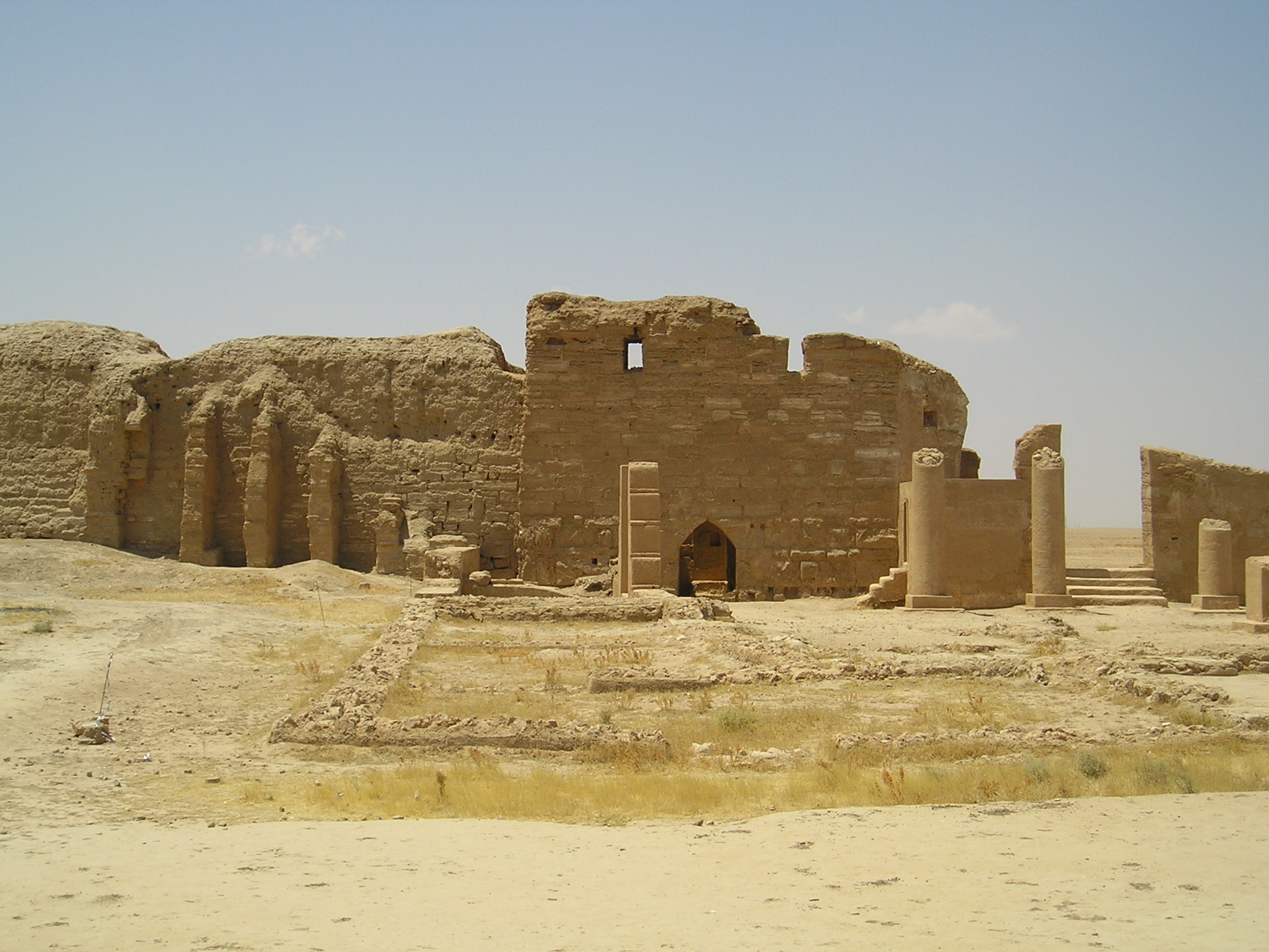 Dura-Europos, Syria — the temple of Bel Dura-Europos, Sirija — Belov tempelj عربي: دورا أوربوس في سوريا حيث معبد بعل I took the photo myself